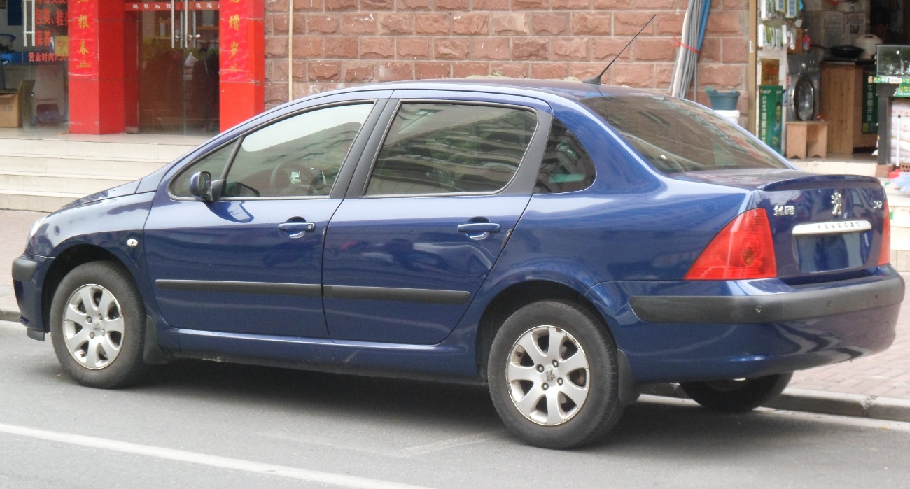 Peugeot 307 sedan photographed in Shanghai, China.